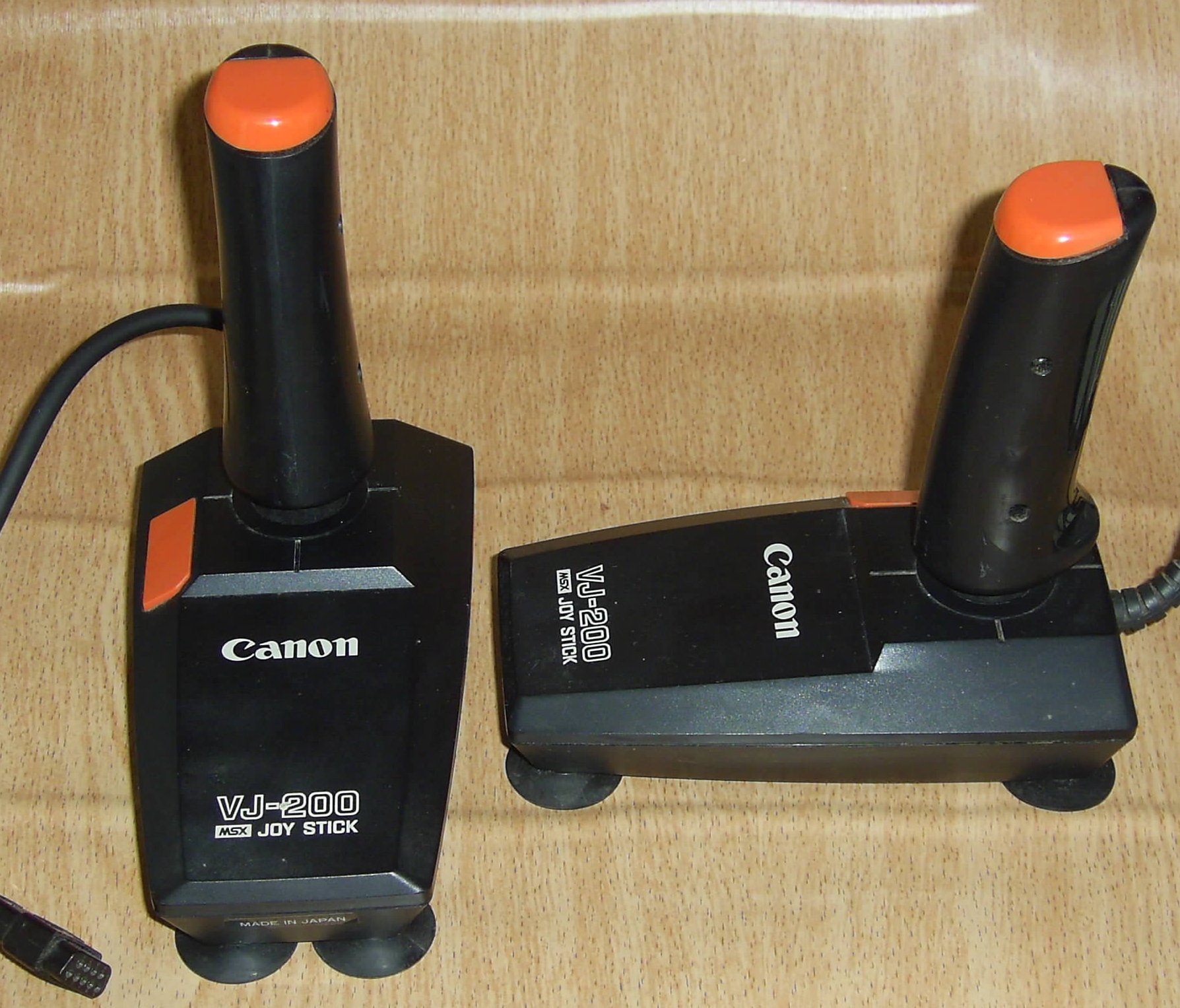 Joysticks Canon VJ-200 MSX